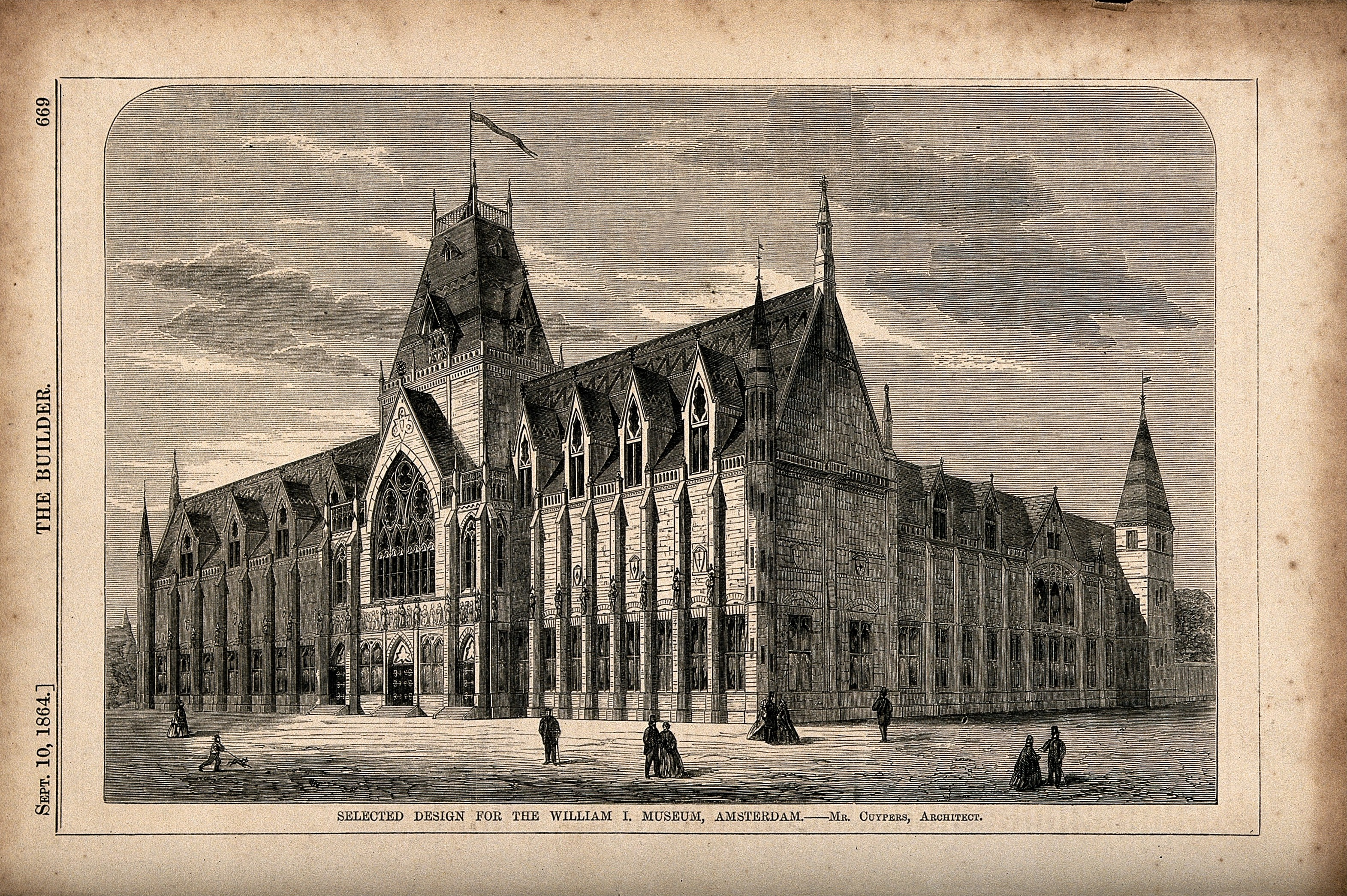 Design for the William I museum, Amsterdam. Wood engraving after Cuypers. Iconographic Collections Keywords: Petrus Josephus Hubertus Cuypers; William I museum (Amsterdam)